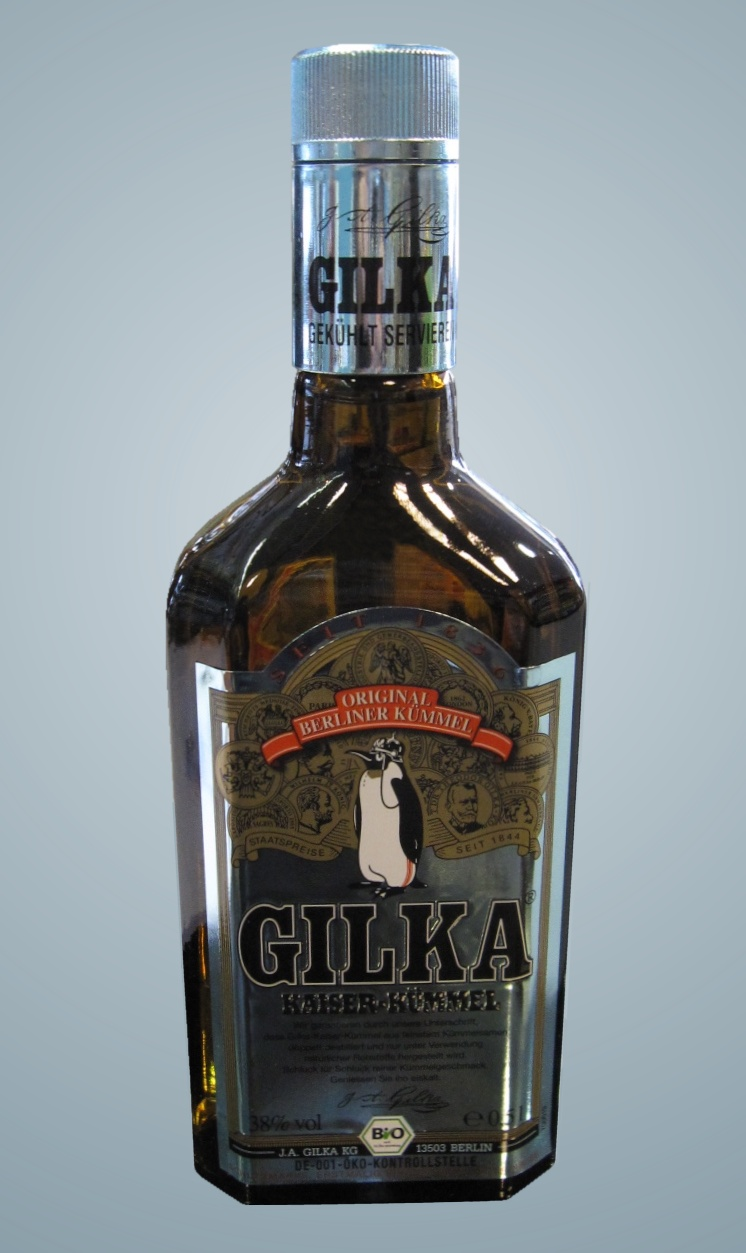 Kaiser-Kümmel, a liqueur flavoured with caraway seed, cumin, and fennel, by J. A. Gilka from Berlin. The label shows a penguin wearing a prussian military helmet, as was worn by German emperor Wilhelm II.